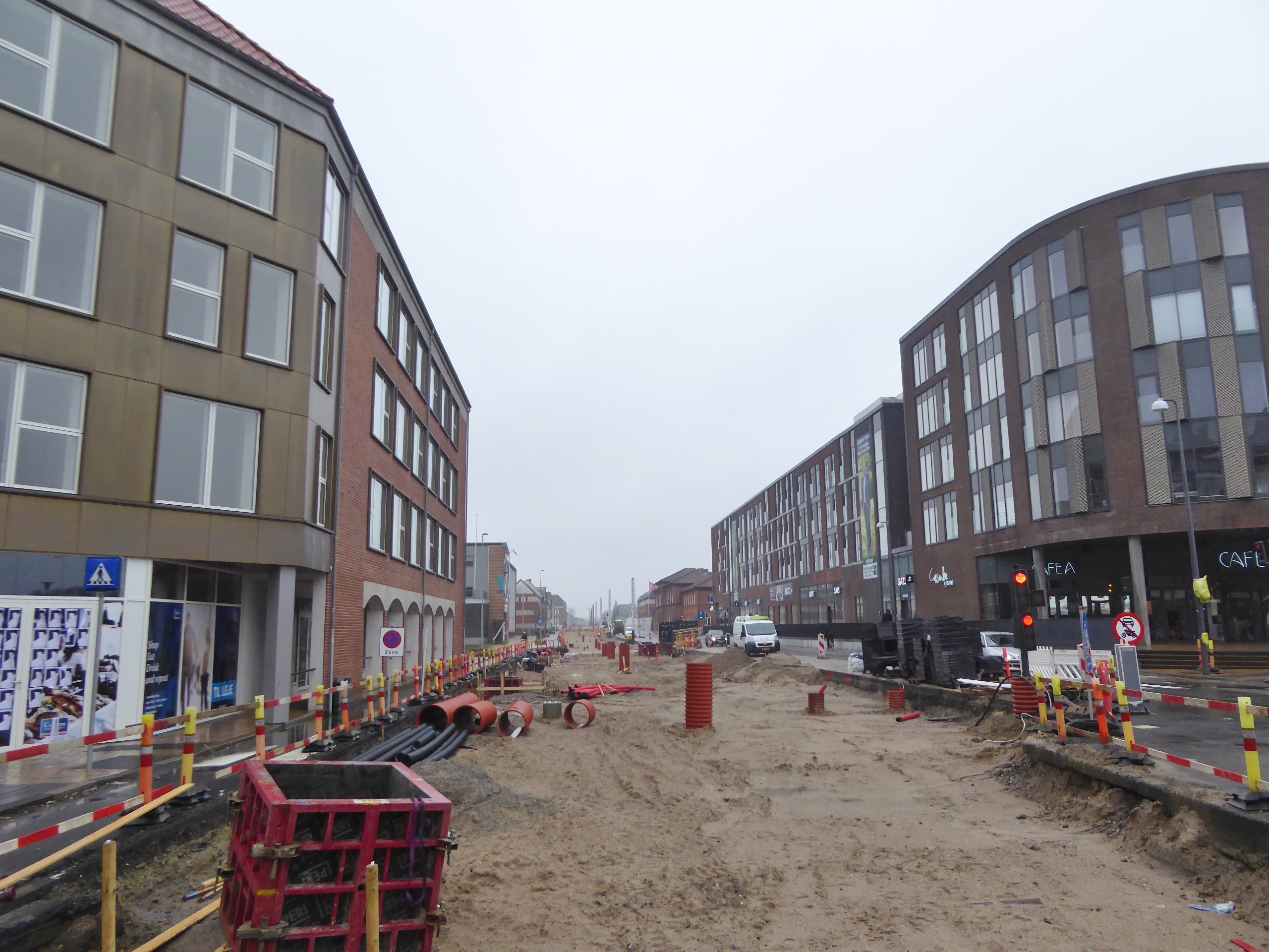 Construction of Kongensgade Station of Odense Letbane on Vestre Stationsvej in Odense in Denmark.